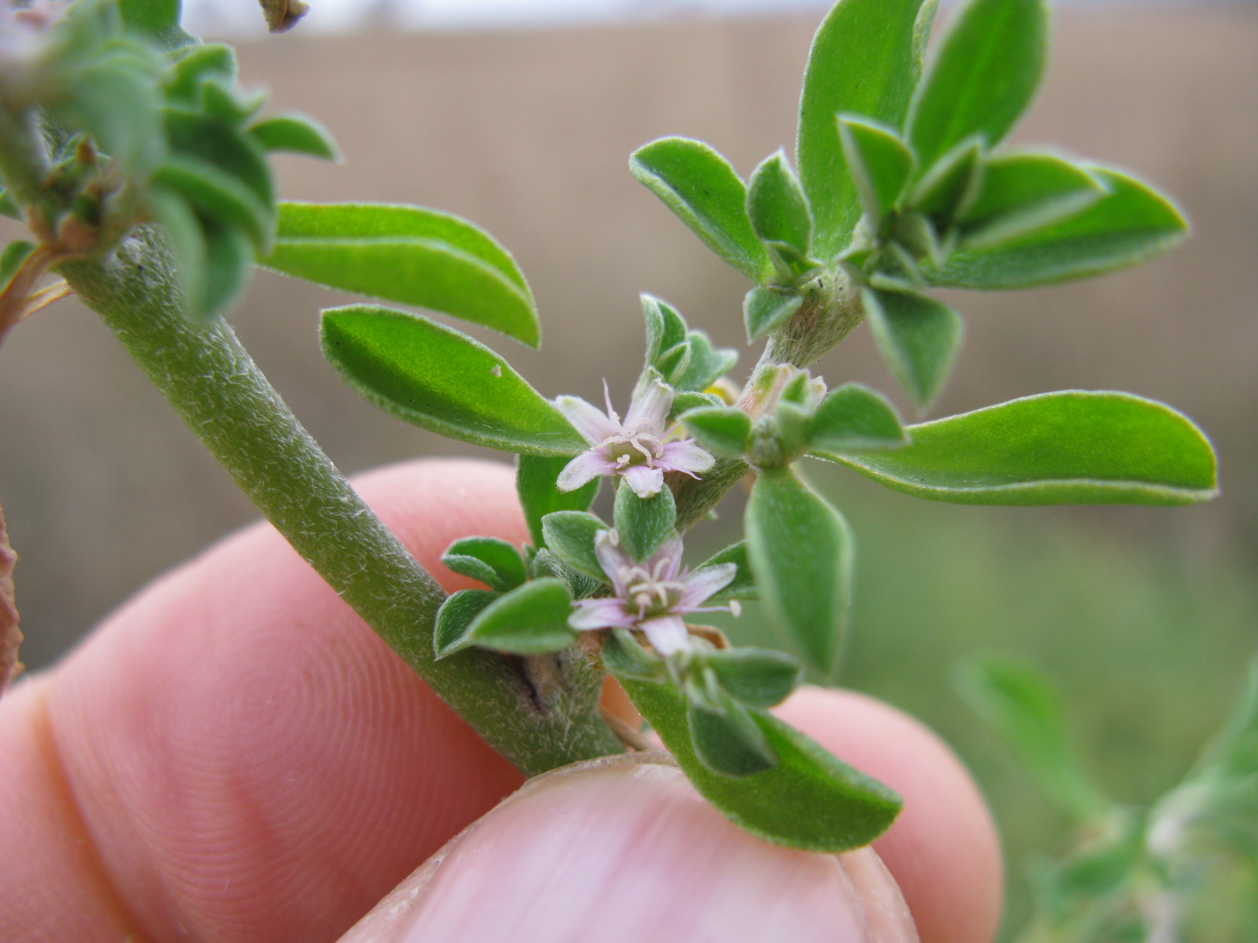 Prostrate,warm-season, perennial herb forming dense mats up to 1.6 m across. Stems are thick and woody. Grey, hairy, slightly succulent, roughly spoon-shaped leaves are alternately arranged along the stems and 4–25 mm long. Flowers are tiny white to pink, found in the leaf axils and have 5 "petals" and 10 stamens. Fruit are small (2-3 mm across) cup-shaped capsules containing a small number of seeds. Flowering is from spring through to autumn. Not very common, but may be locally abundant, especially in the Hunter Valley. Often forms dense mats on roadsides, lawns, wasteland, and other disturbed areas. Tolerates drought and soil salinity. Most commonly found in areas receiving summer rainfall, on loam soils. Does not persist in areas that are regularly and frequently grazed. Successfully planted to stabilise mine tailing dumps, but has spread from there.